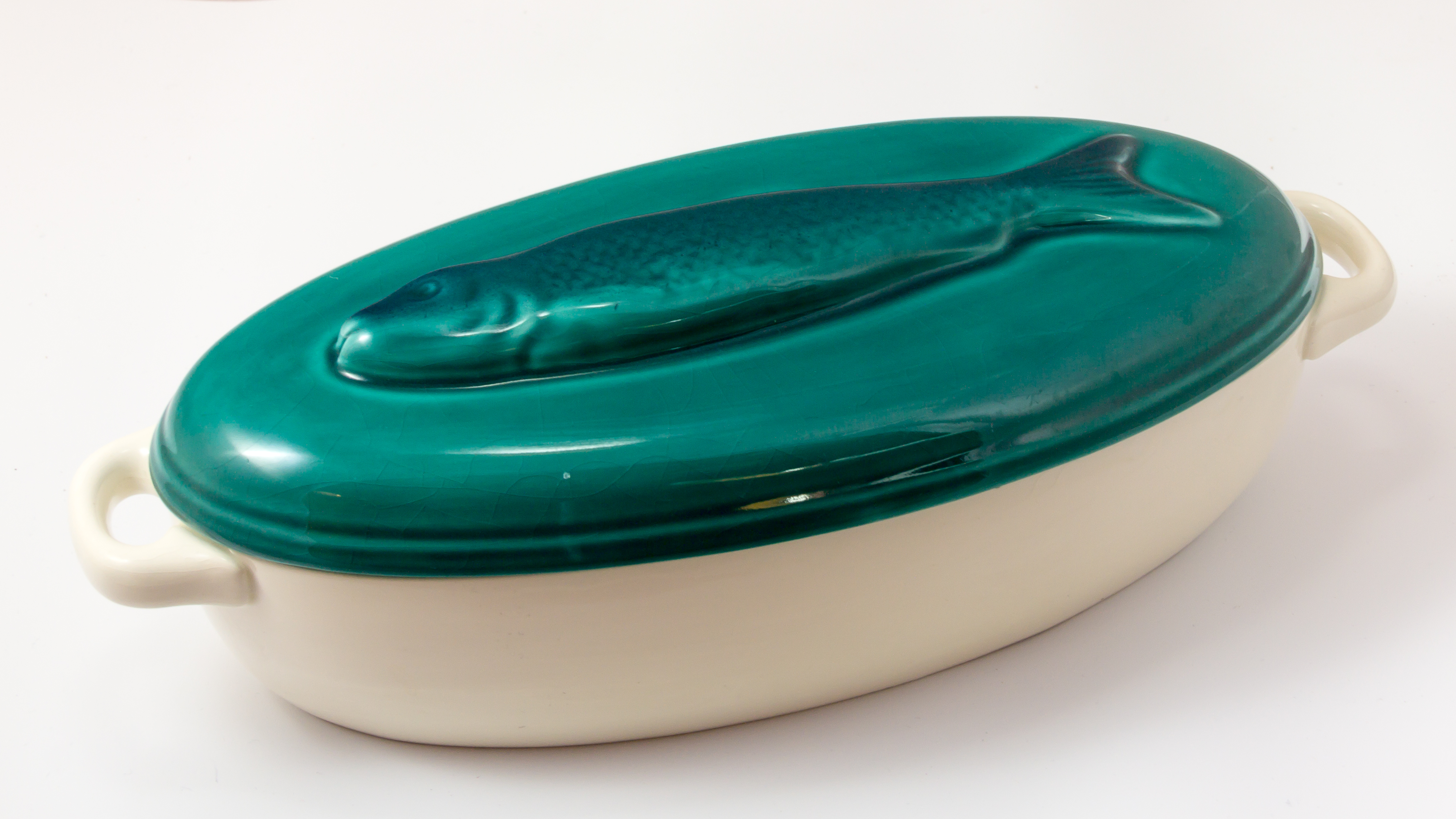 Tureen